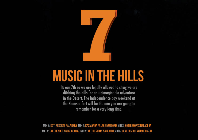 The image depicts the history of the previous six episodes of the events, with the description of the 7th one in a nutshell.